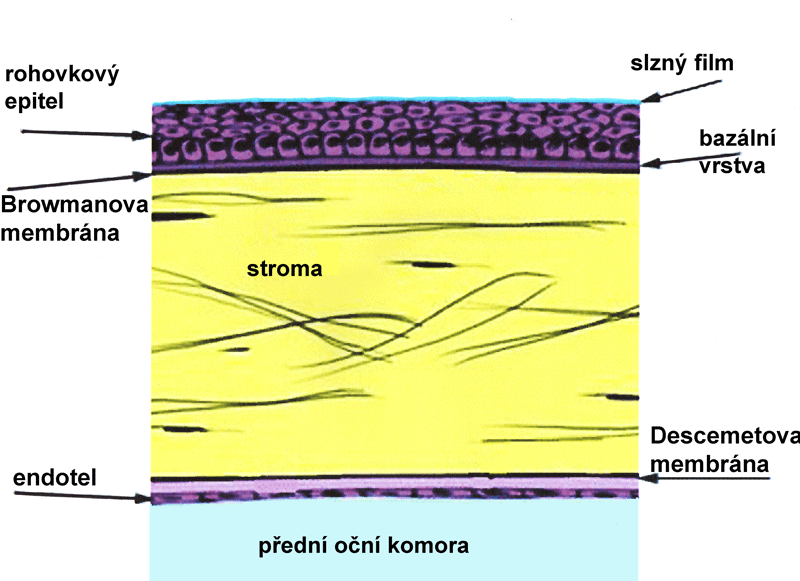 vertical section of human cornea